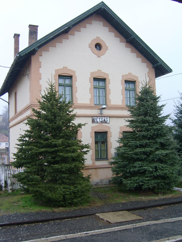 Railway station of Rétság in the Diósjenő–Romhány line, Nógrád County, Hungary